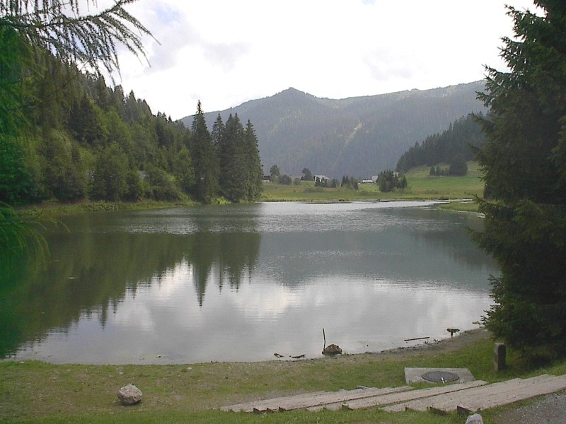 The lake Lac de Morgins in the Canton of Valais, Switzerland.